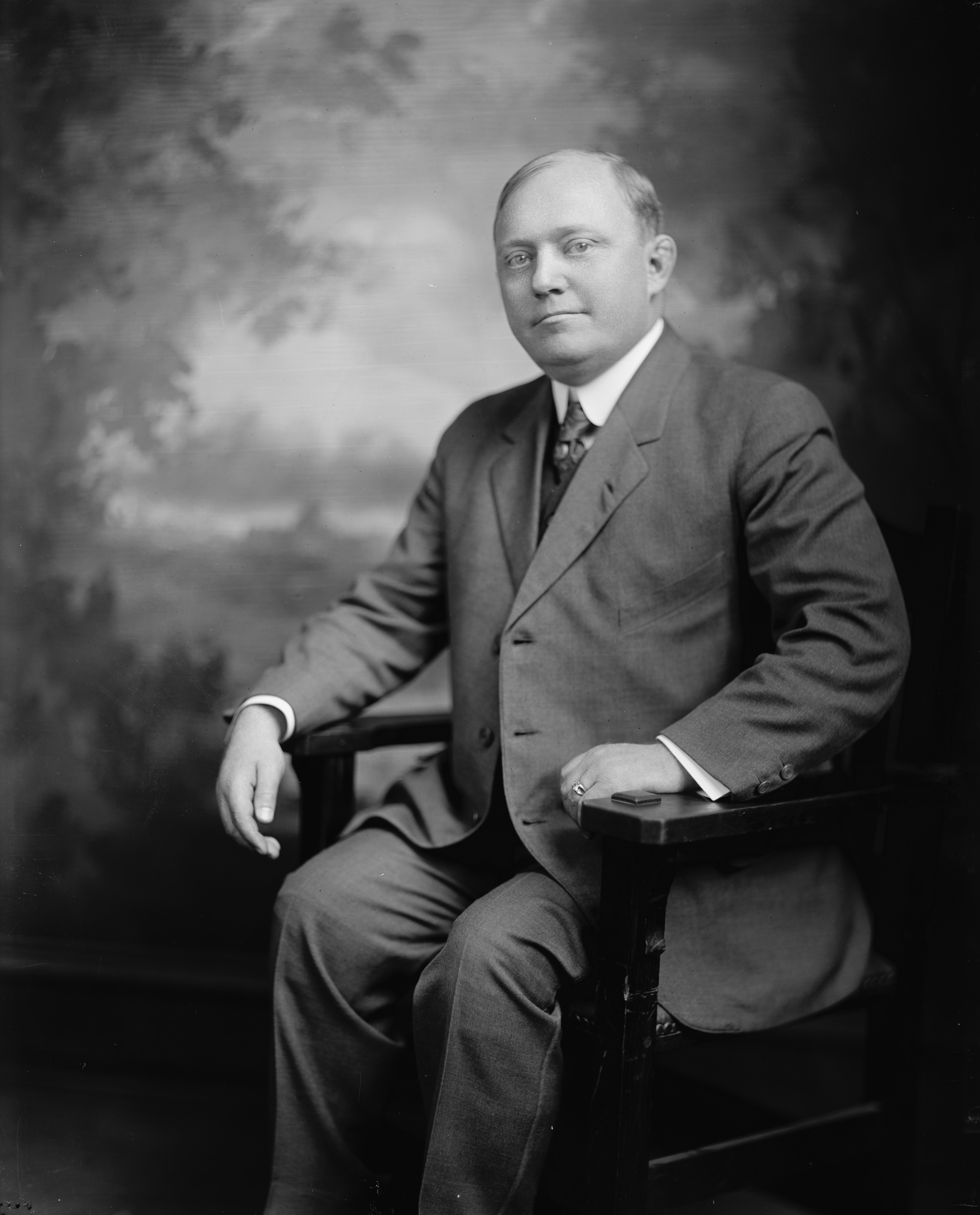 Harry H. Dale, Congressman and judge from New York.